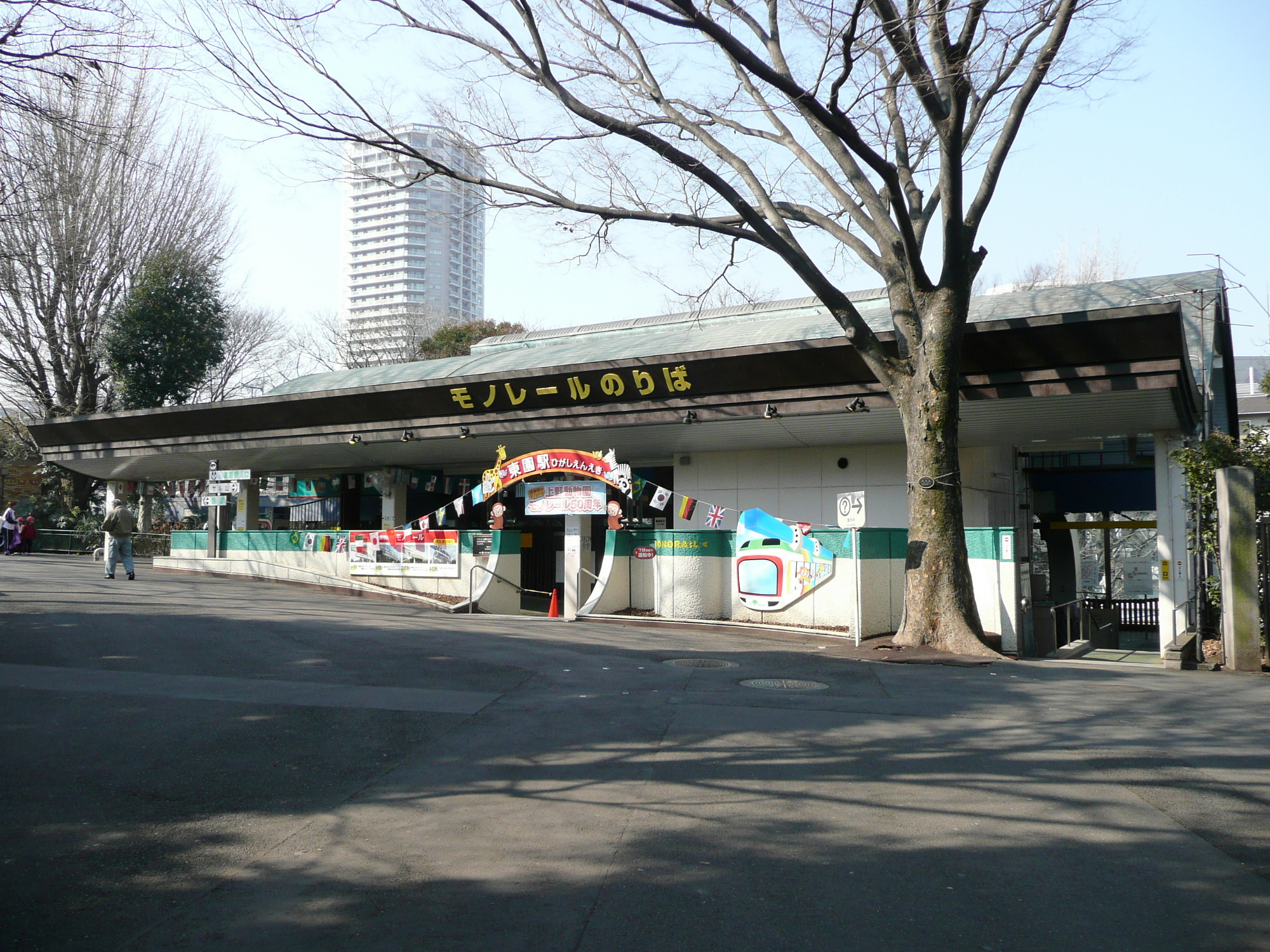 Higashien Station,Ueno Zoo Monorail,Tokyo Metropolitan Bureau of Transportation.